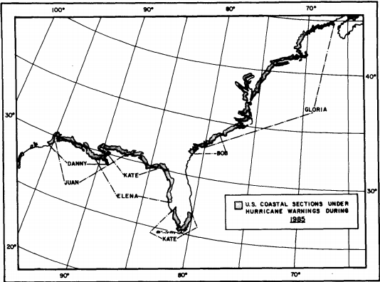 Map showing hurricane warnings issued along the Atlantic and Gulf Coasts of the United States in 1985.